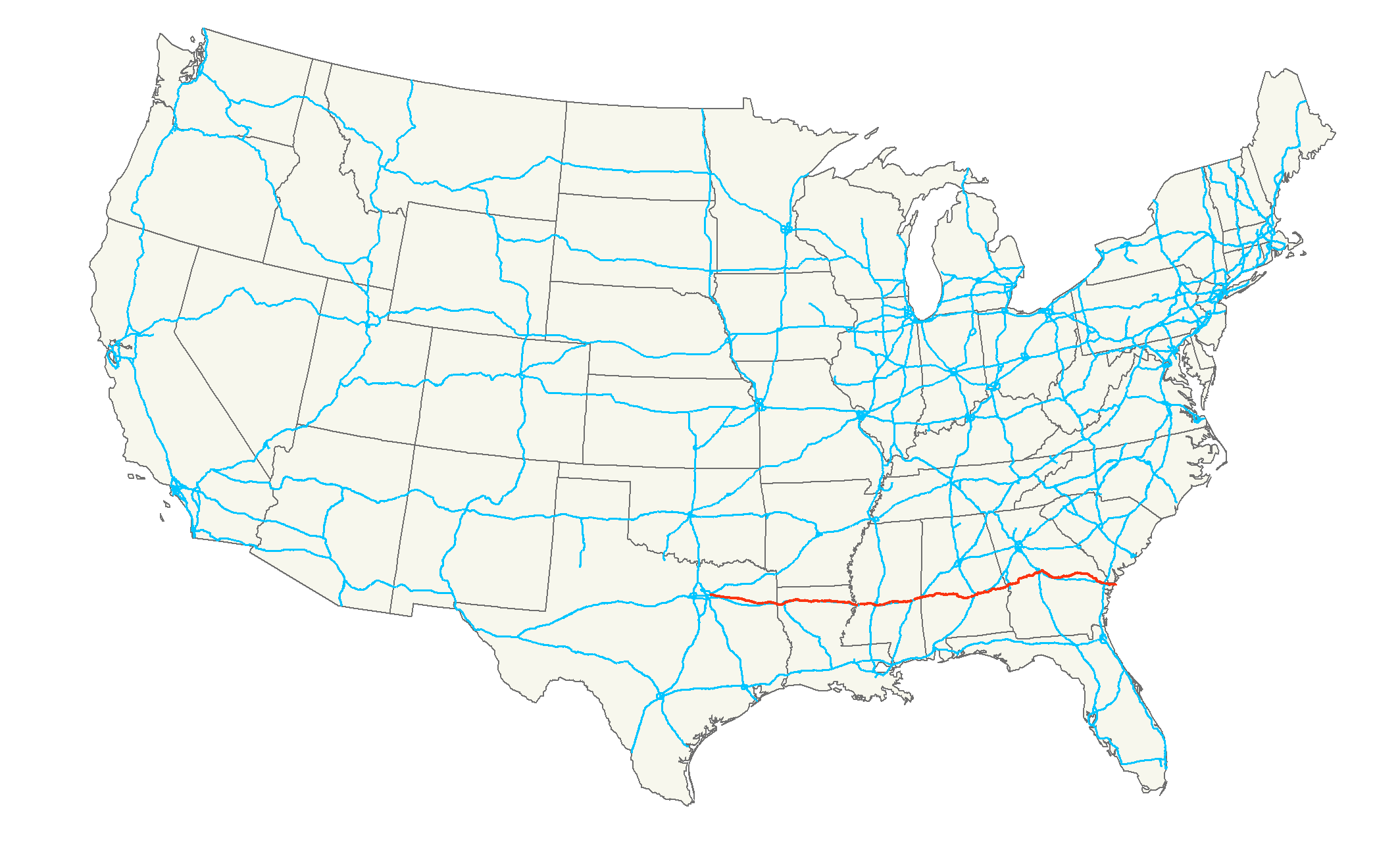 Map of U.S. Route 80